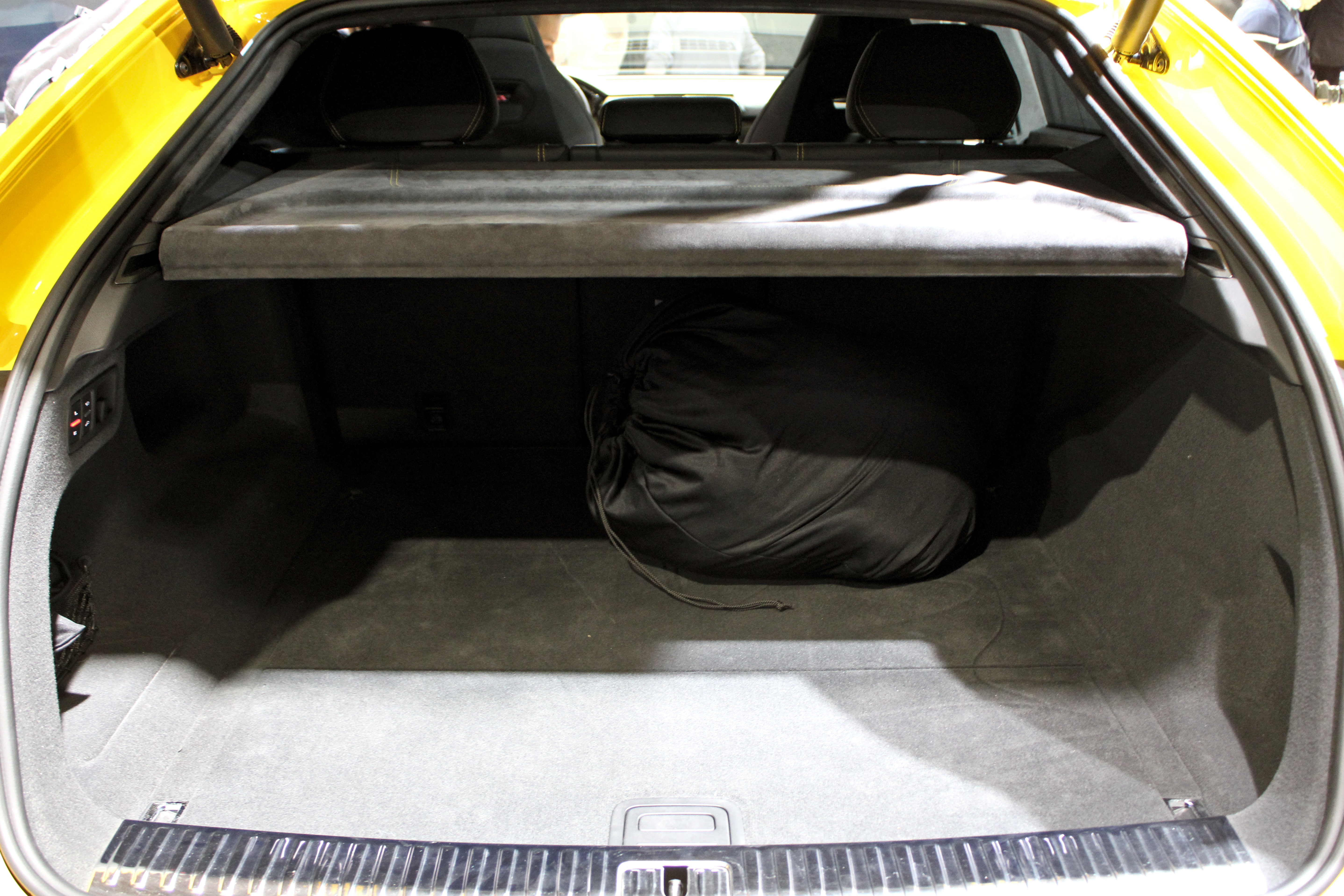 Lamborghini Urus at Paris Motor Show 2018